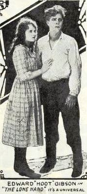 Still cropped for a publication from the American western film The Lone Hand (1922) with Hoot Gibson and Marjorie Daw, on page 27 of the October 7, 1922 Universal Weekly.